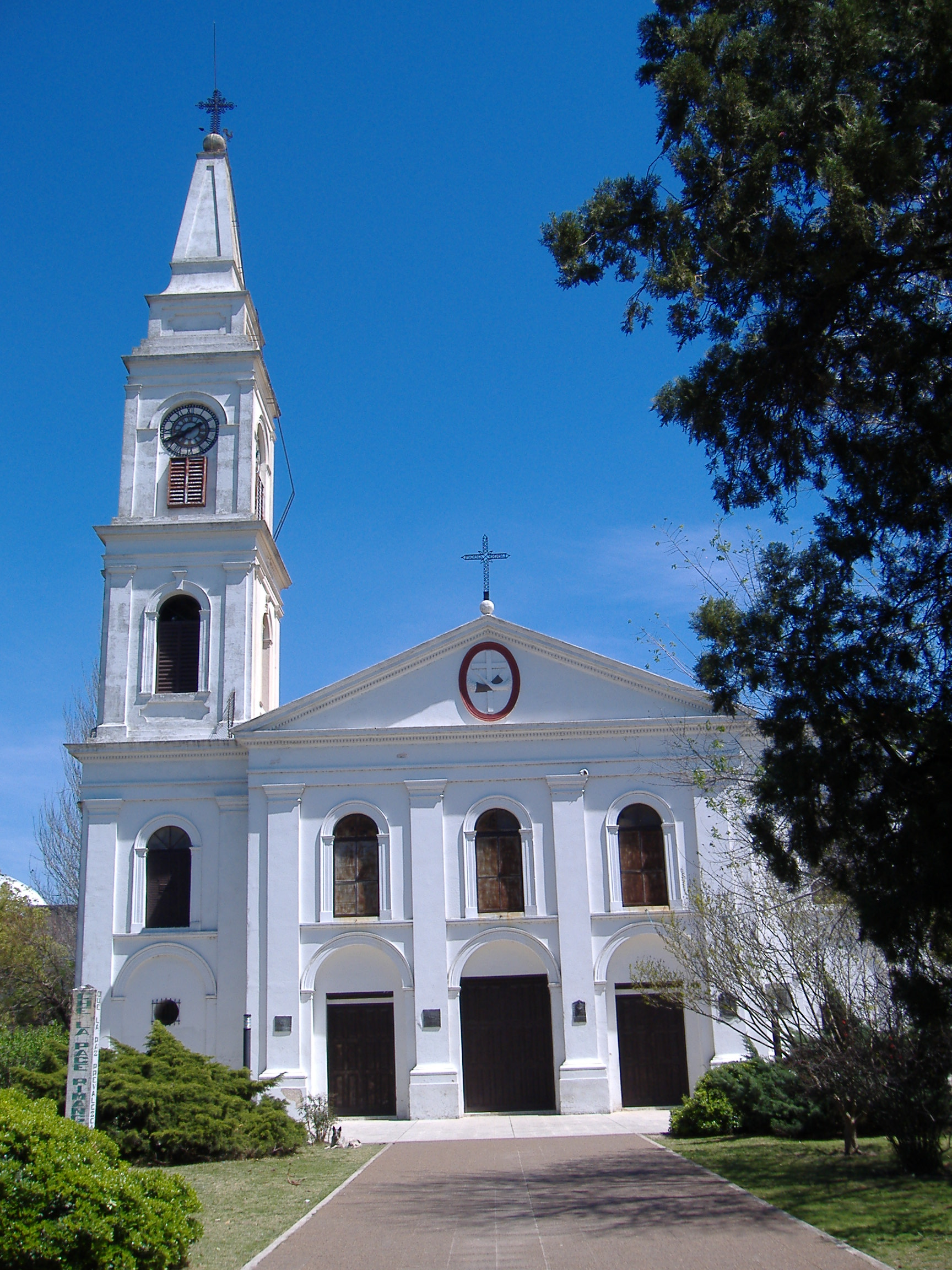 San Carlos Convent, San Lorenzo, Santa Fe, Argentina. This Franciscan convent was used to treat the wounded after the Battle of San Lorenzo (1813), the first in the Argentine War of Independence.